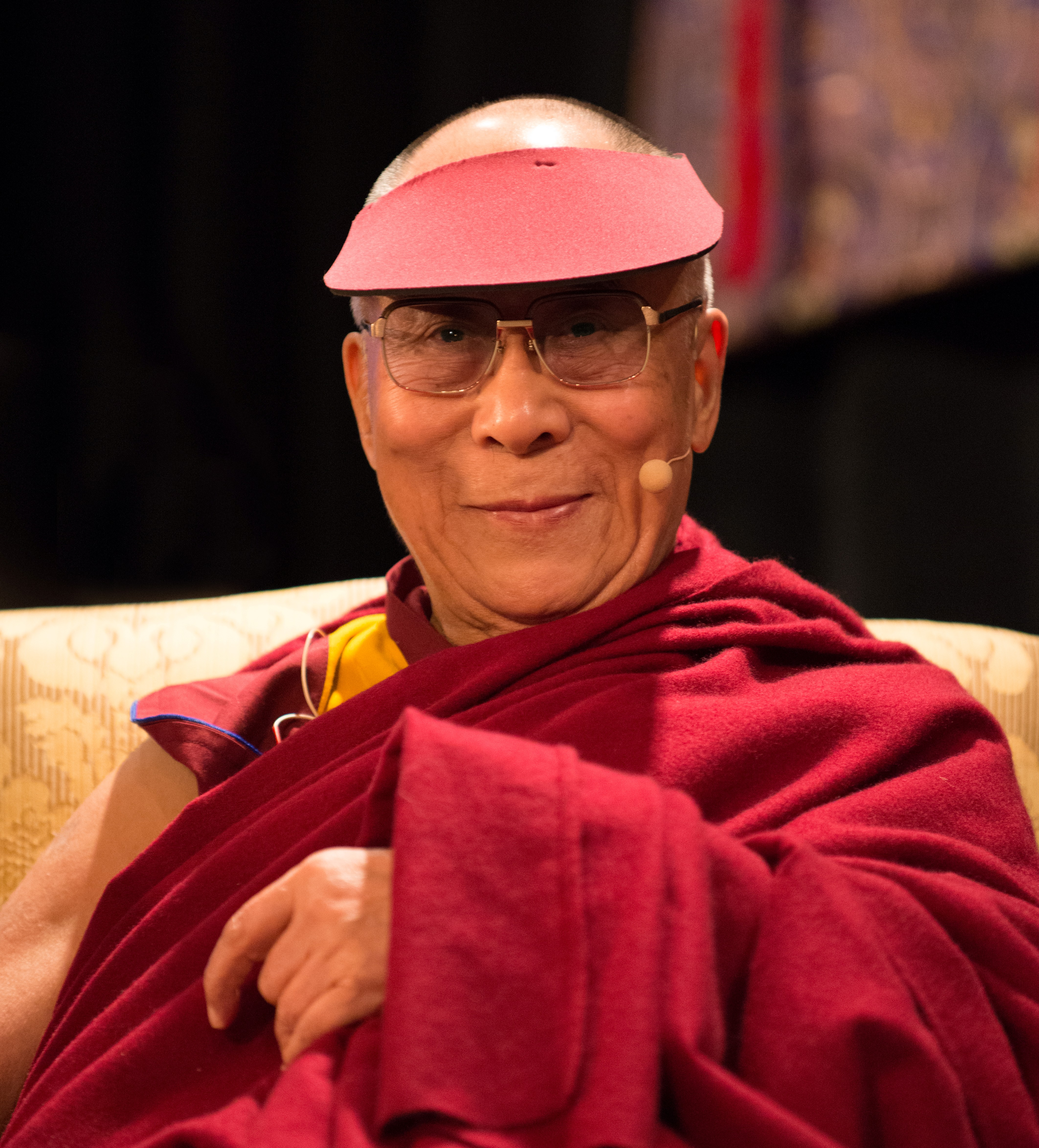 At the Unsung Heroes of Compassion event, San Francisco. (If you want to watch it)